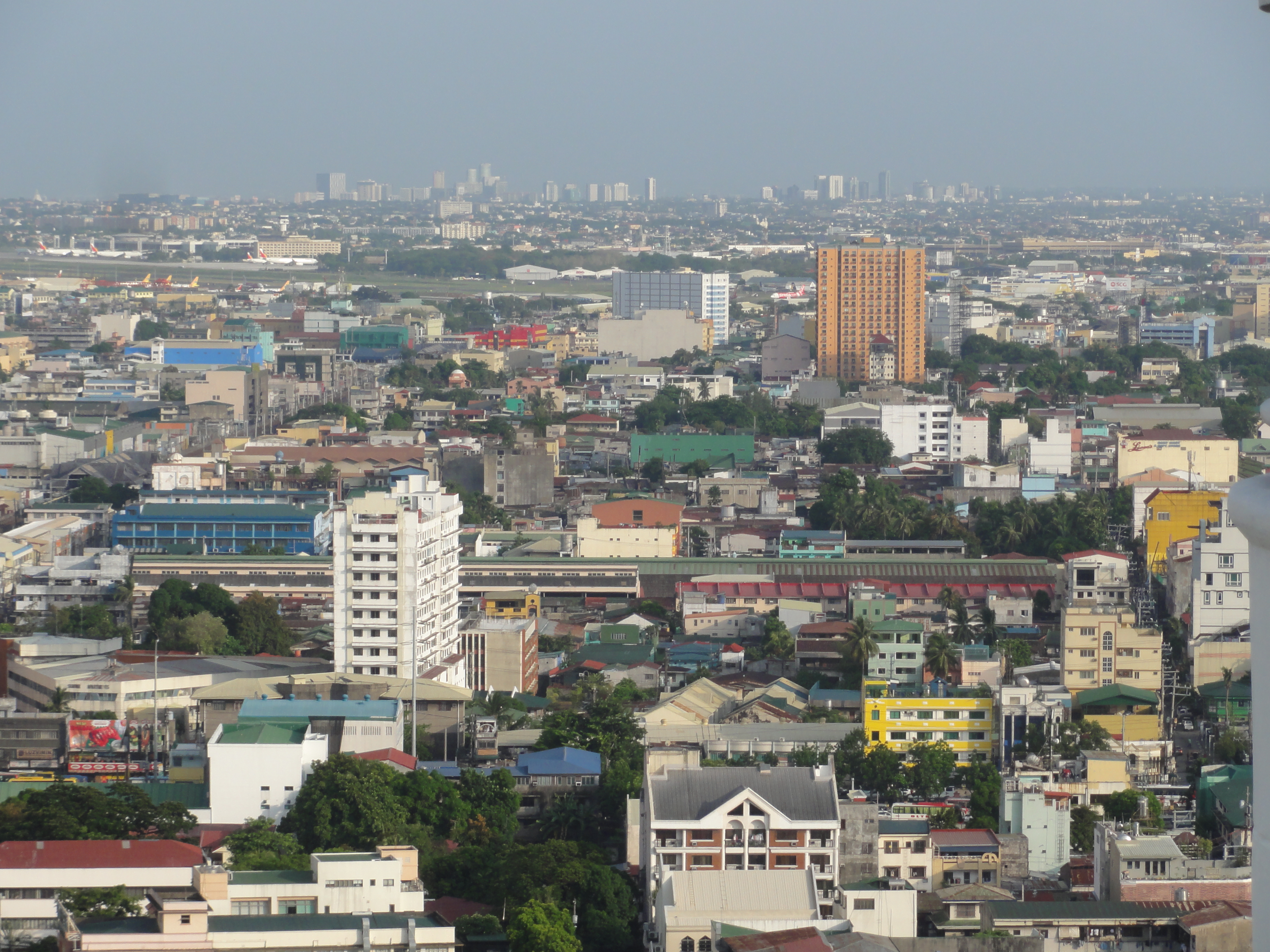 Skyline of Pasay City as seen from Vito Cruz, Malate, Manila as of June 2015.